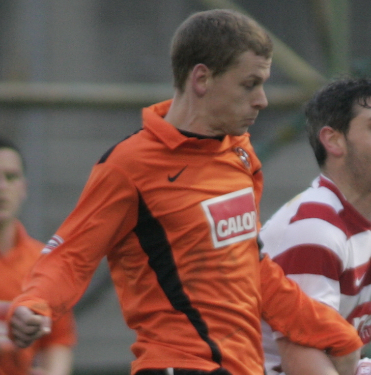 Clydesdale Bank Scottish Premier League - Hamilton Academical vs Dundee United. Hamilton's Elebert clears his lines whilst under pressure from Dundee Utd's Scott Robertson during the 1-1 draw against Dundee Utd at New Douglas Park, Hamilton. Picture : Alasdair Middleton/Universal News & Sport (Scotland) Saturday 26th February 2011 Universal News and Sport (Europe) All pictures must be credited to (0ffice) 0844 884 51 22